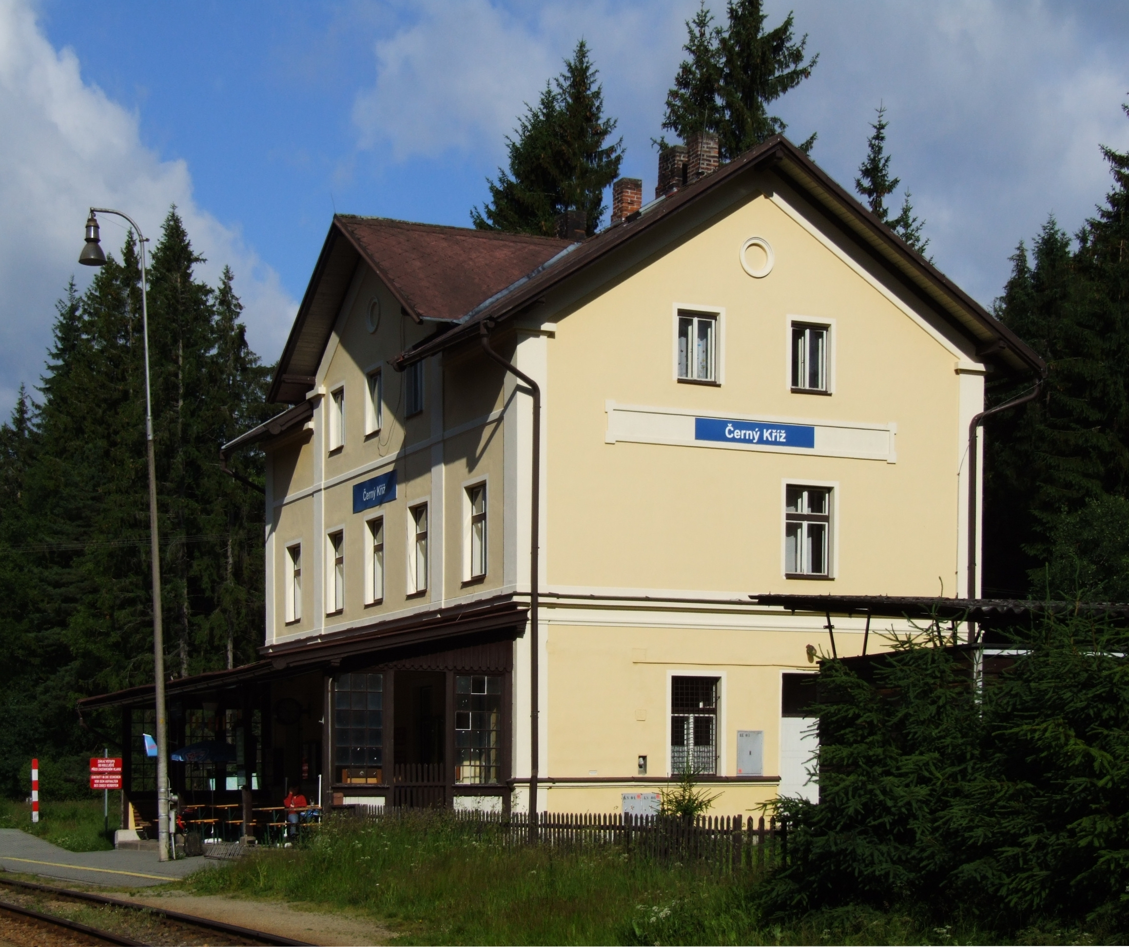 Train station Černý Kříž (Schwarzes Kreuz) in Šumava (Böhmerwald) mountains